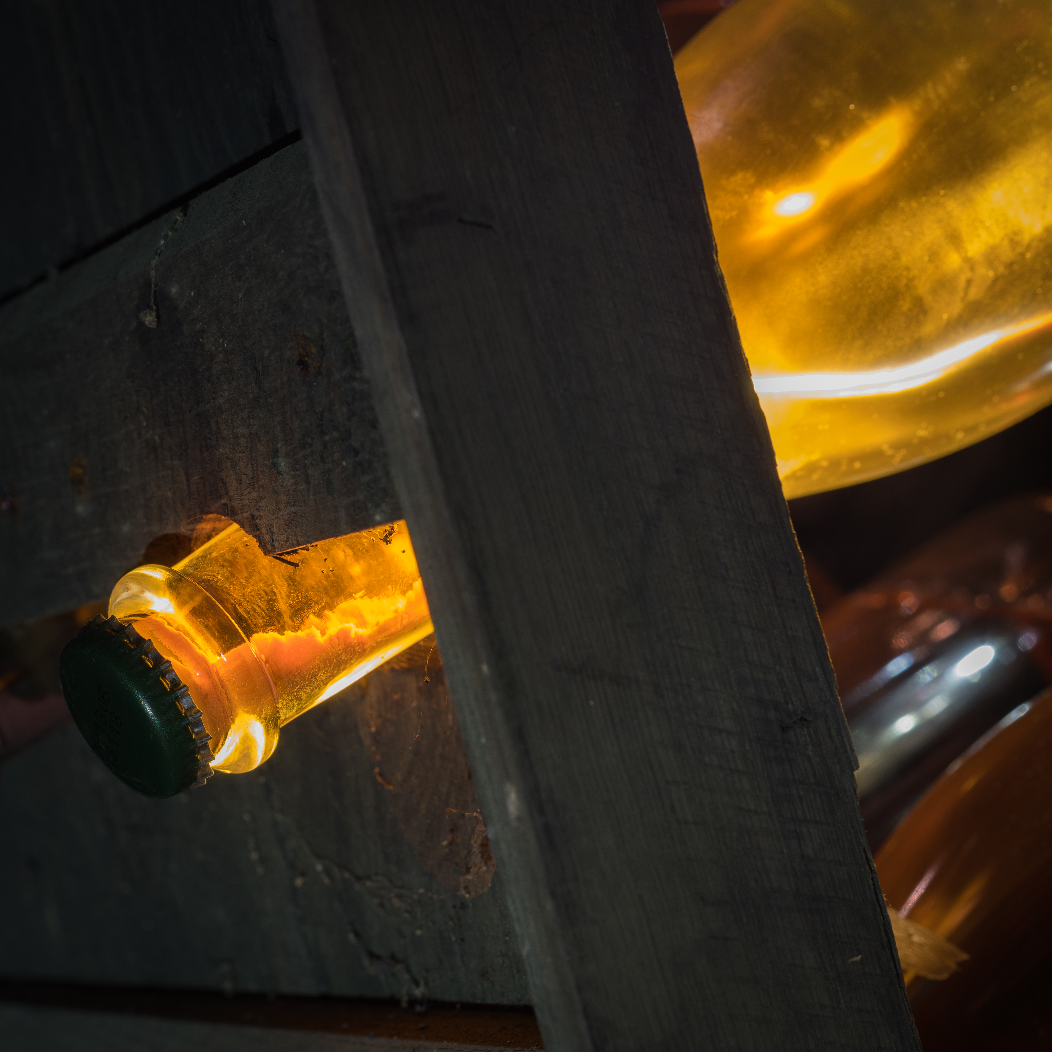 Yeast in a champagne bottle at the cellar of Schramsberg Vineyards, Napa Valley, California